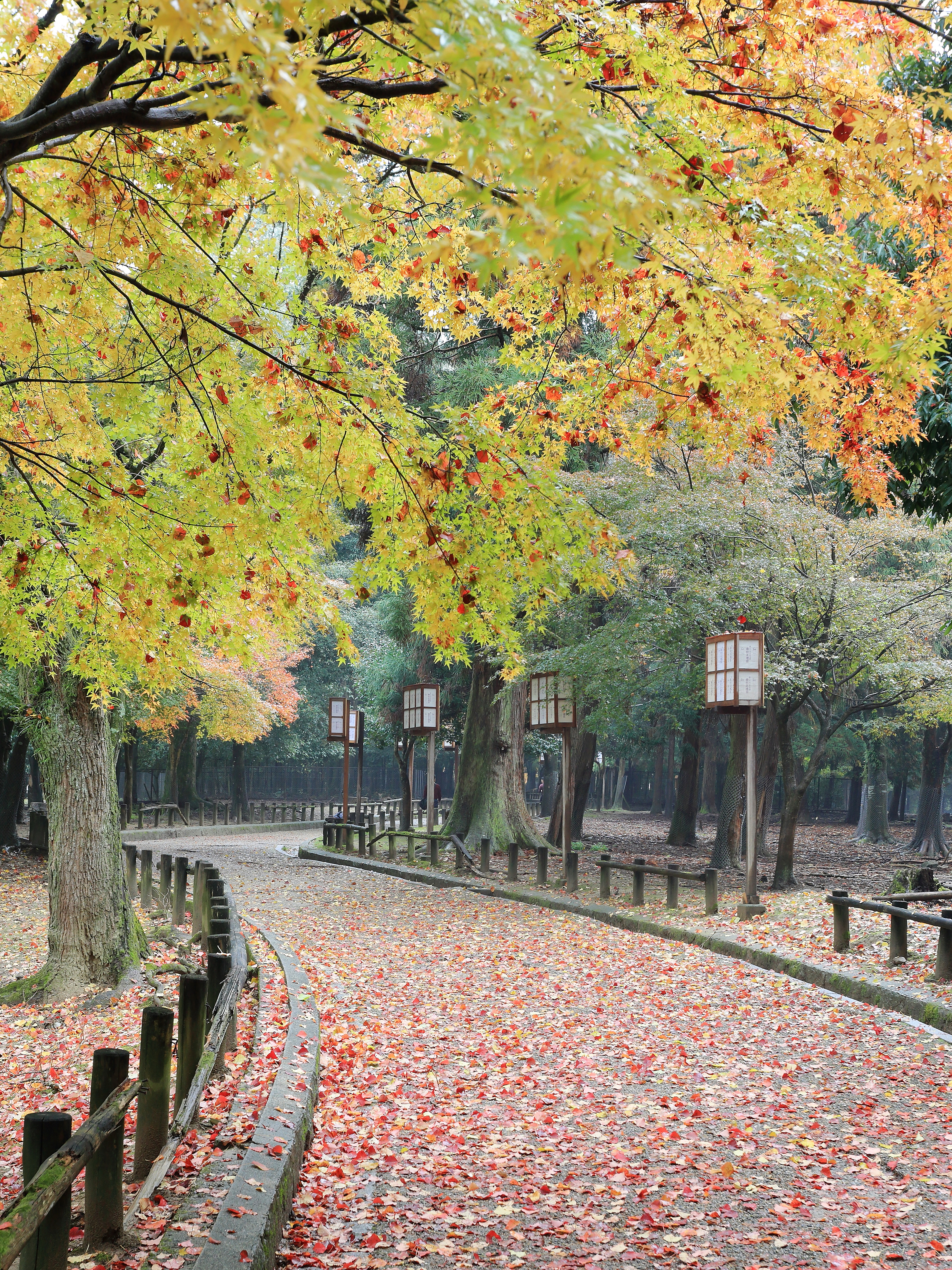 Nara Park, a public park located in the city of Nara, Japan, at the foot of Mount Wakakusa, was established in the 1800s and is one of the oldest parks in Japan.